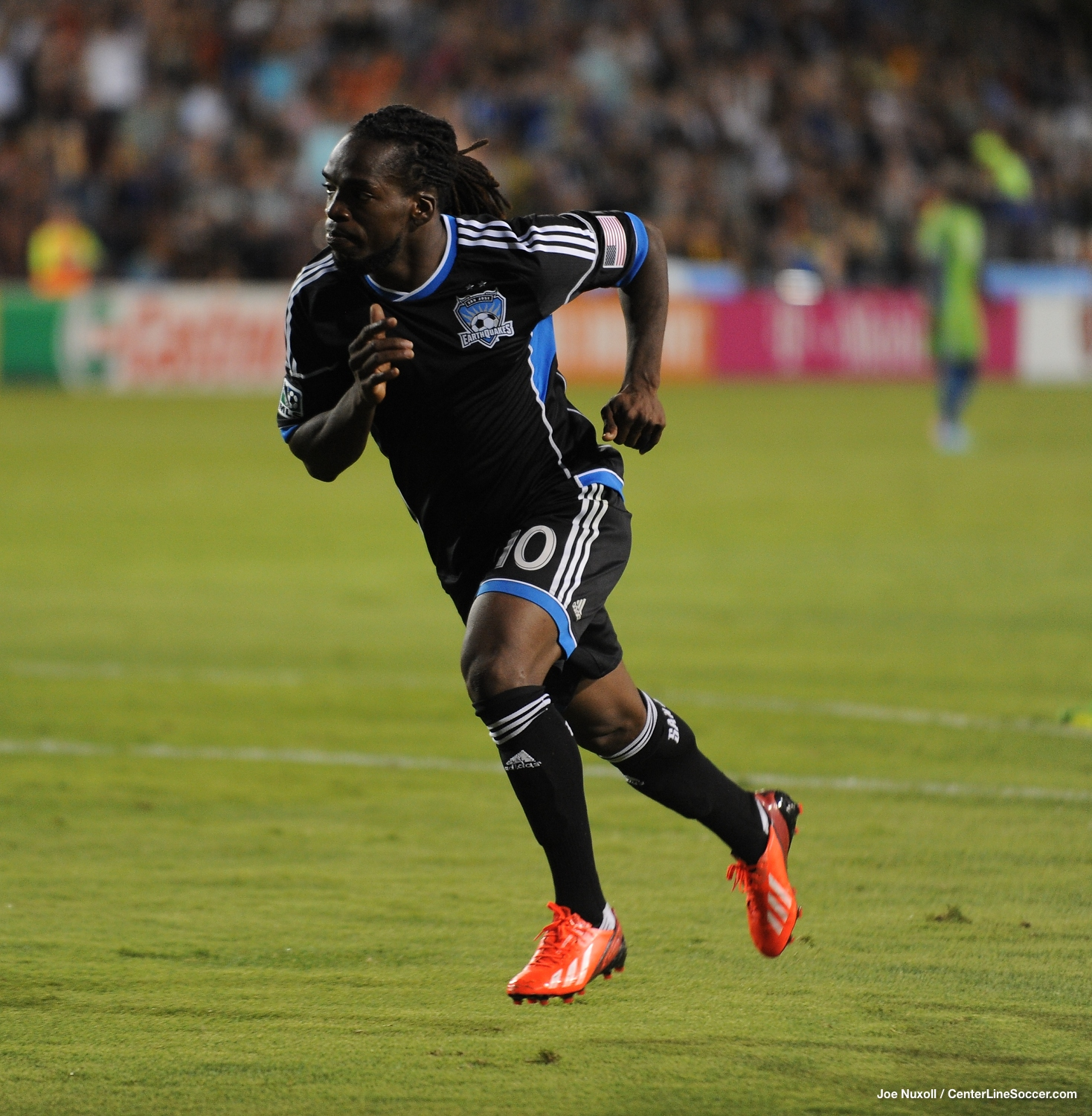 July 13, 2013 - Santa Clara, CA. The San Jose Earthquakes defeated the visiting Seattle Sounders FC 1-0. Photo by Joe Nuxoll / .